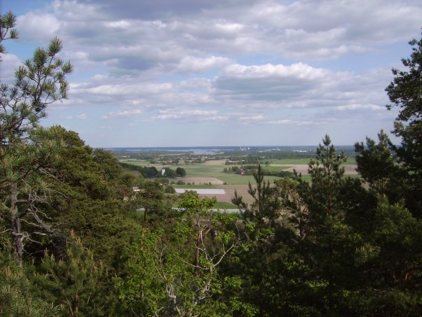 Torsklint, a prehistoric stronghold from the Iron Age in Östergötland, Sweden.